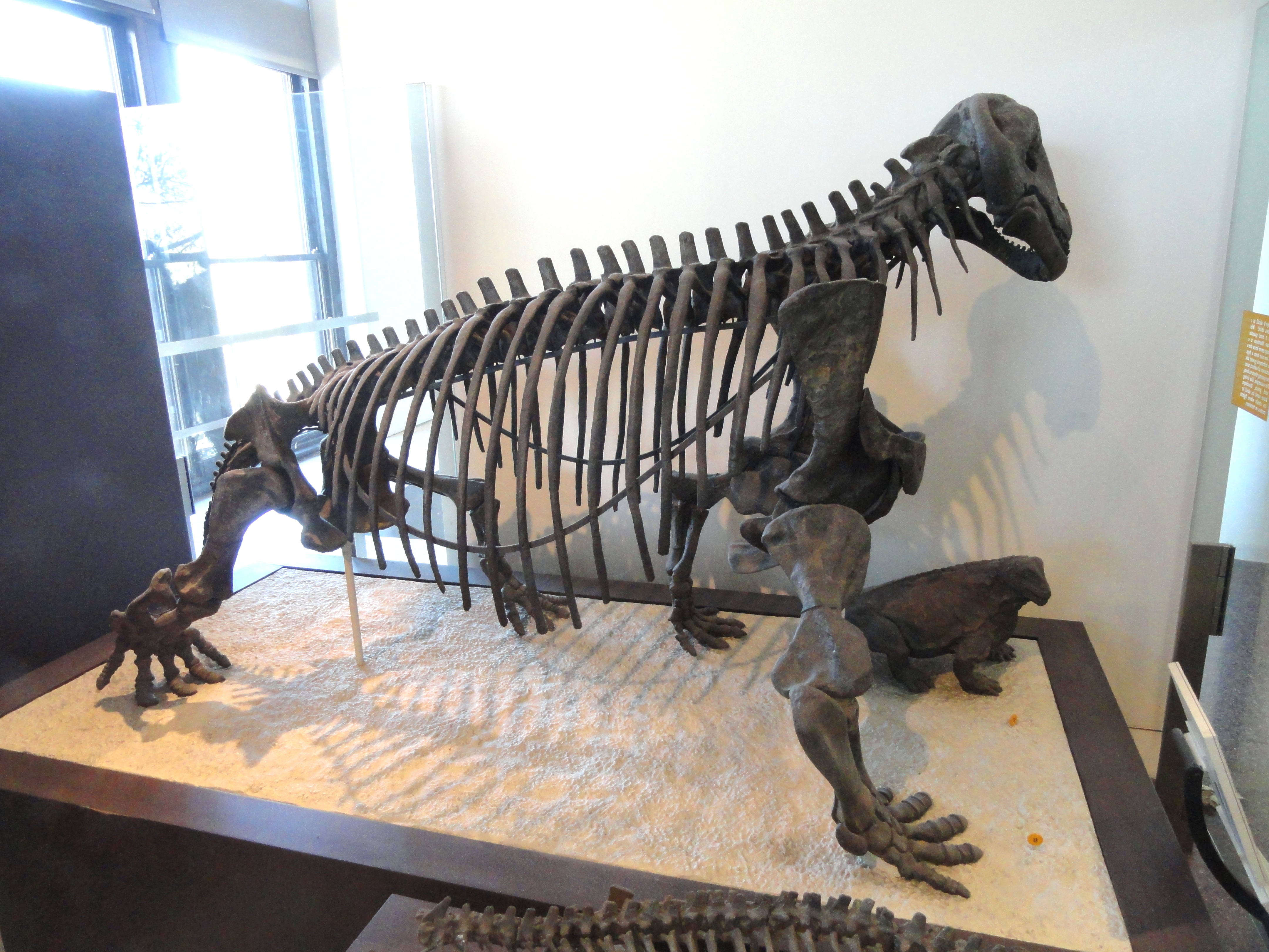 Exhibit in the fossil collection of the American Museum of Natural History, Manhattan, New York City, New York, USA.